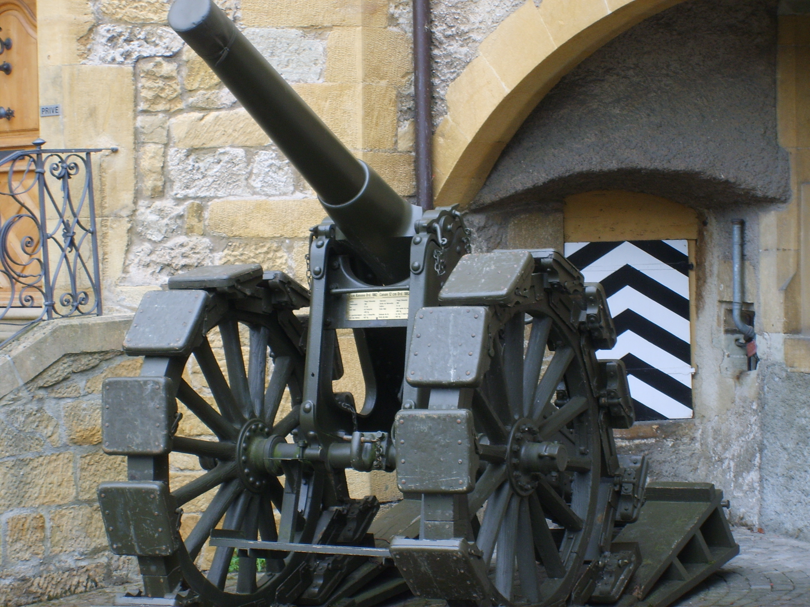 Cannon in Murten (Canton of Fribourg) in Switzerland. Publish by= User:Stephane8888 Self made